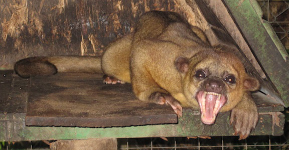 Image of a yawning Kinkajou at a shelter for wounded and abused animals near Sámara, Costa Rica. Taken in the summer of 2009.